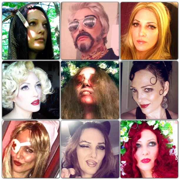 Many faces of Kat Mon Dieu